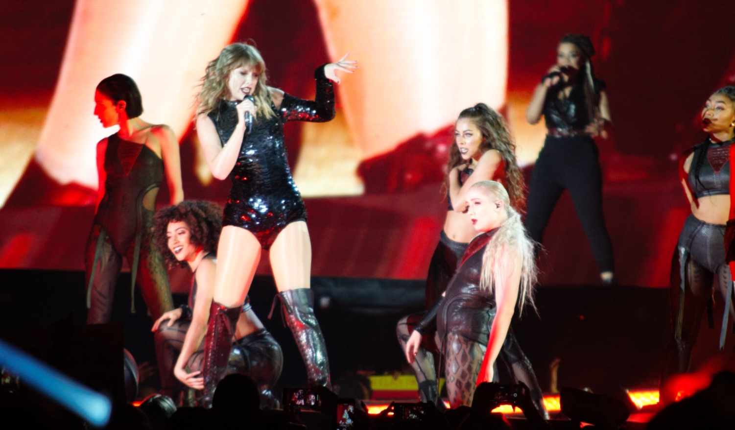 Taylor Swift ::: Sports Authority Field ::: 05.25.18